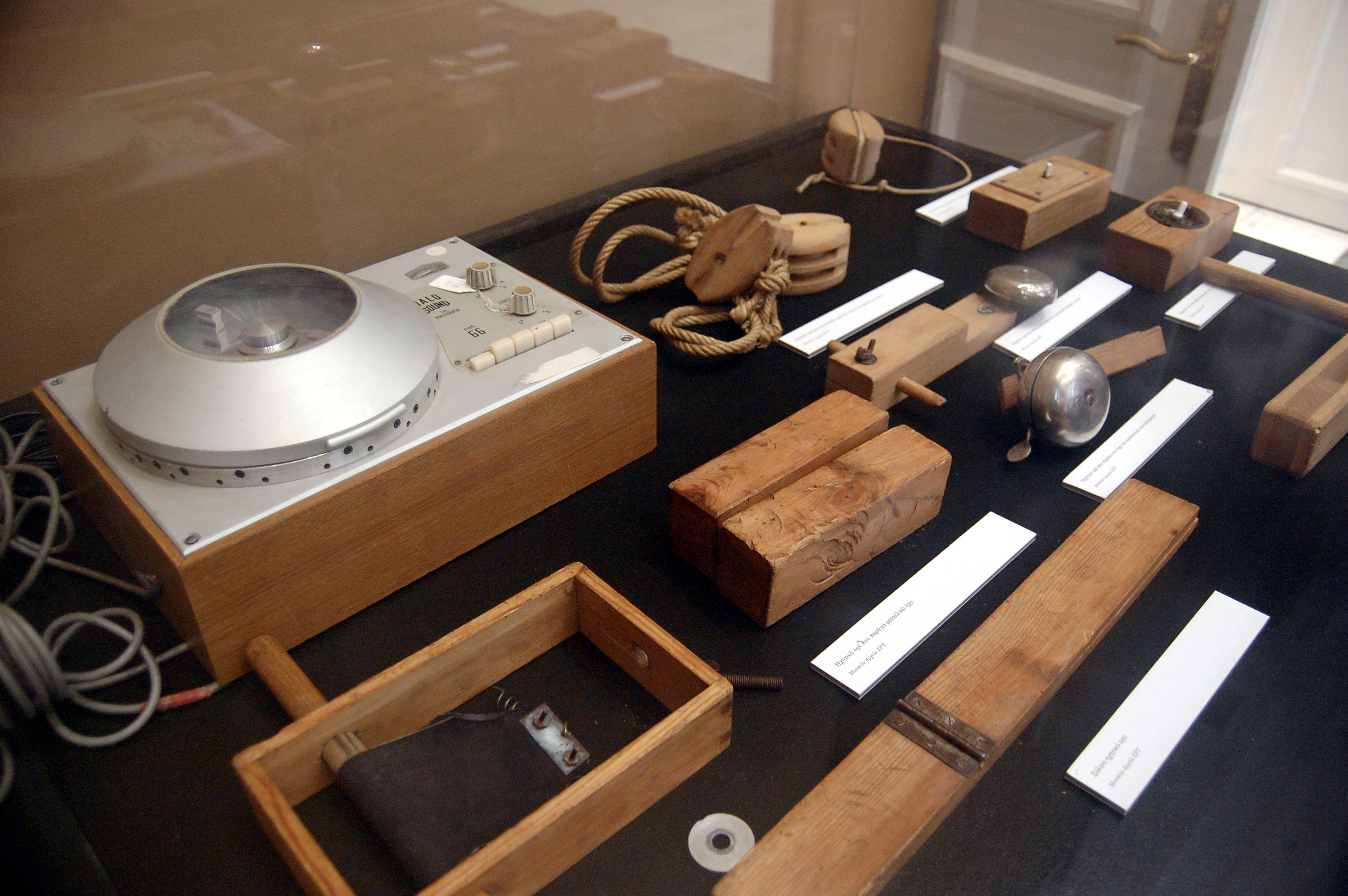 Various devices that were used for the production of hard sound effects in theatrical productions of the greek National Radio.